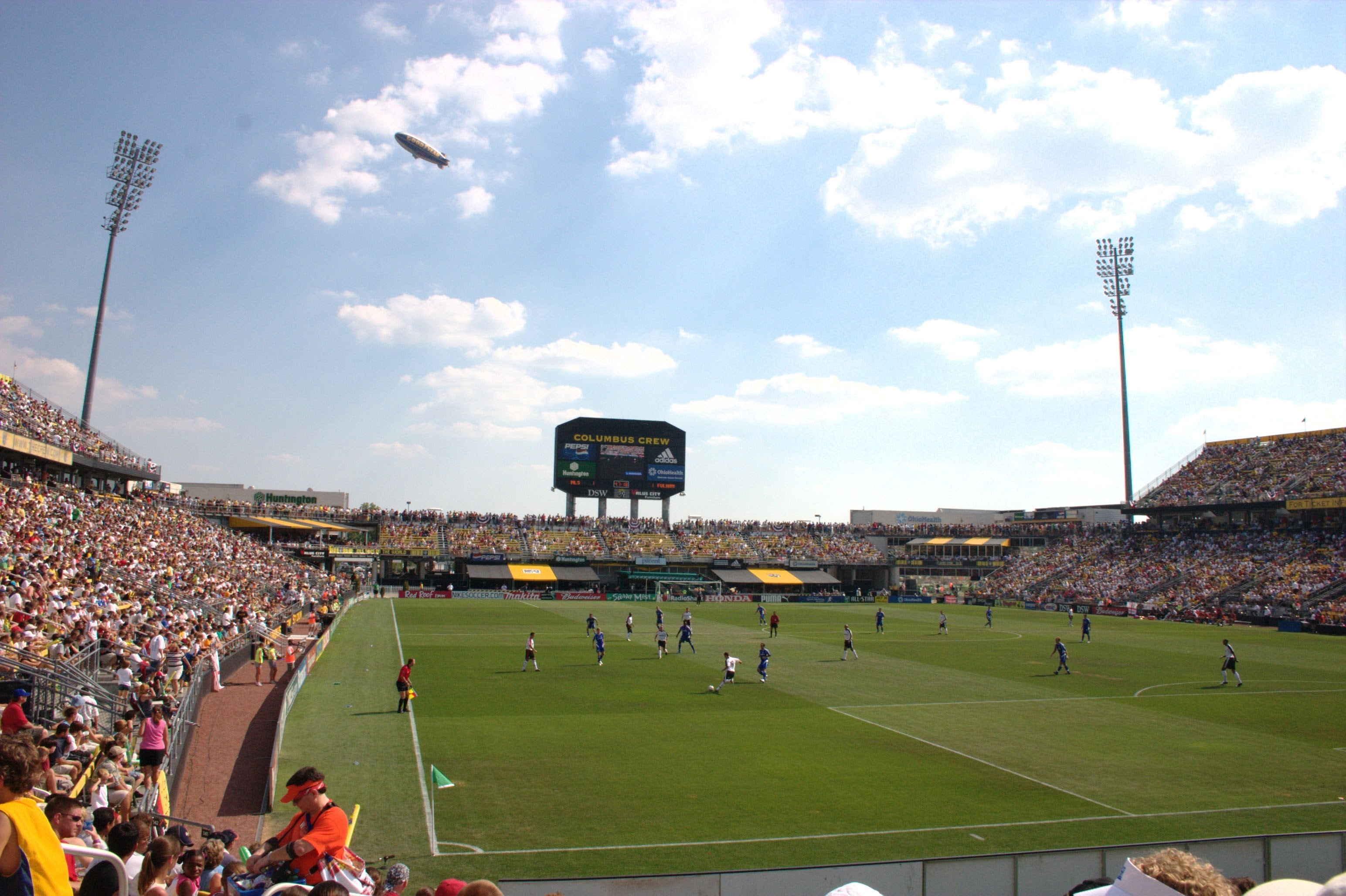 The Columbus Crew Stadium in Columbus, Ohio, home of the Columbus Crew Major League Soccer team. Pictured is the 2005 Major League Soccer All-Star Game which saw a team of MLS All-Stars face English Premier League team Fulham F.C., including US Men's National Team member and former Crew forward Brian McBride